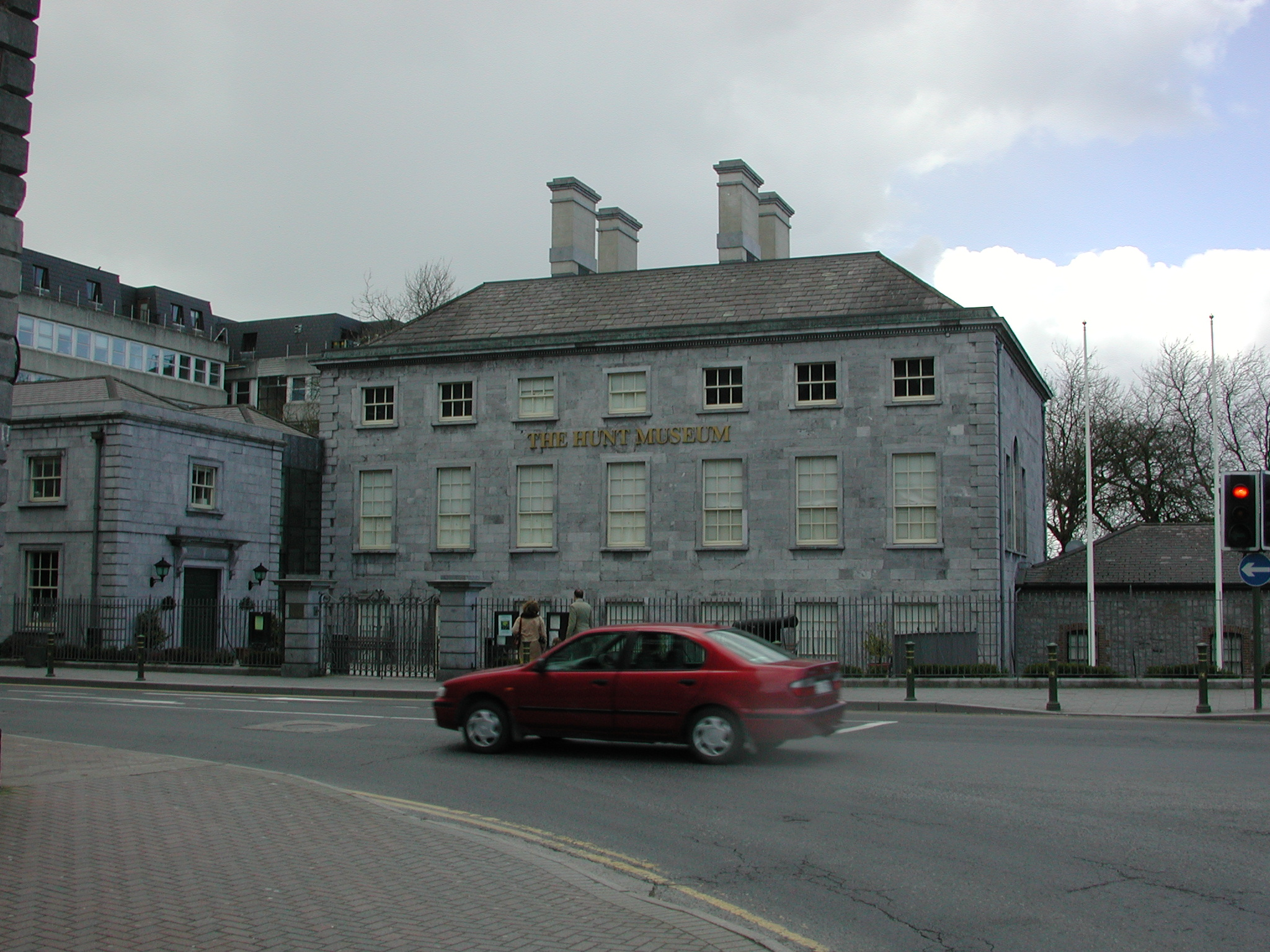 Iarsmalann Hunt ar Shraid Rutland i gCathair Luimnigh. Togtha sa bhlian 2001 ag Sean an Scuab.